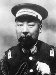 Jiang Chaozong江朝宗, general in early Republican China.